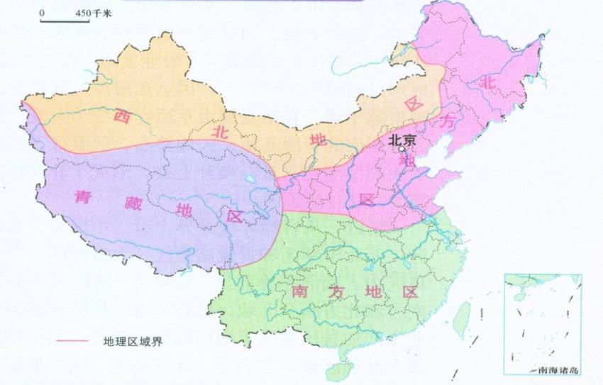 Broader definition of North China (in pink).